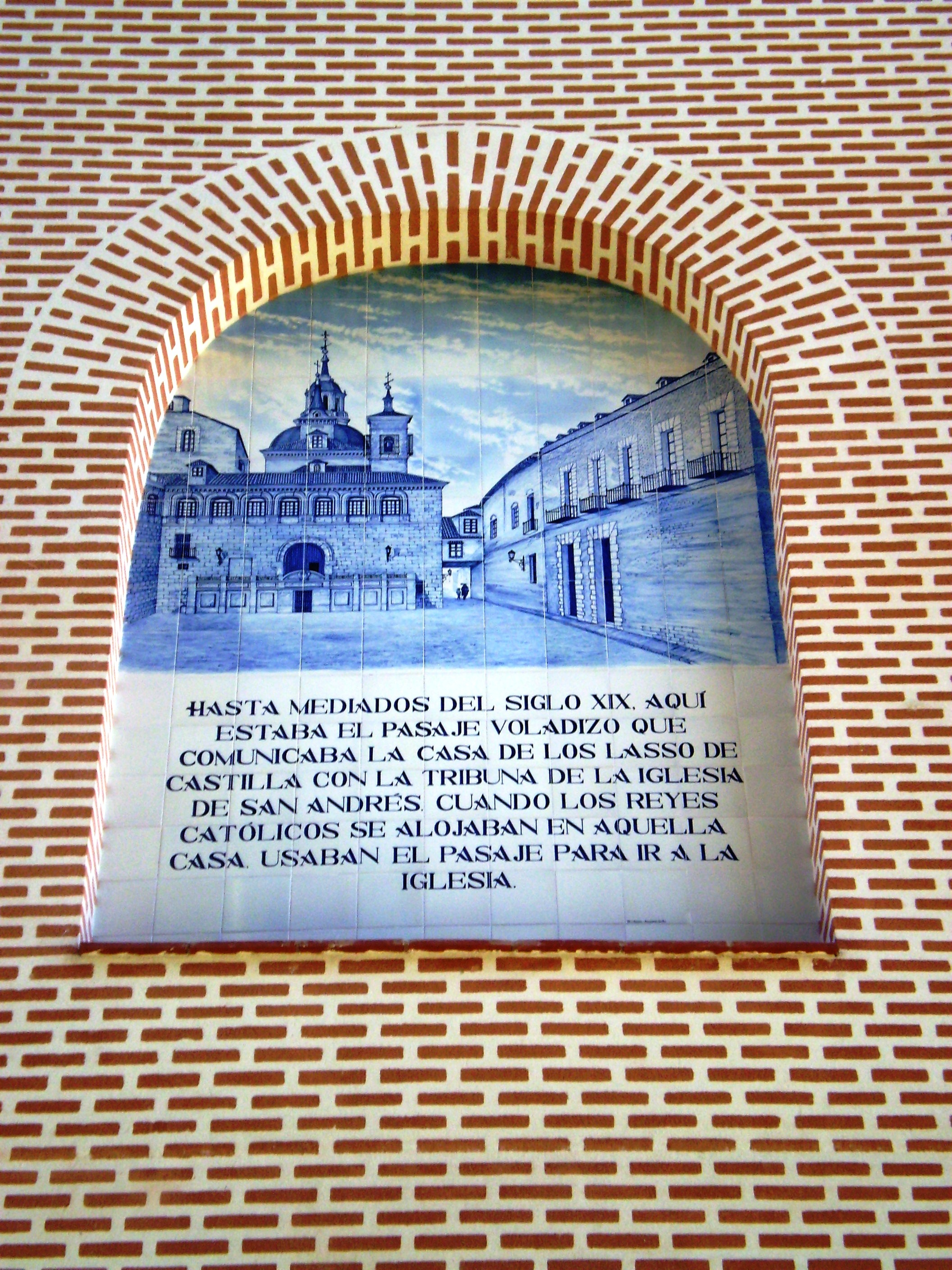 Detail of the Church of San Andrés, Madrid, Spain